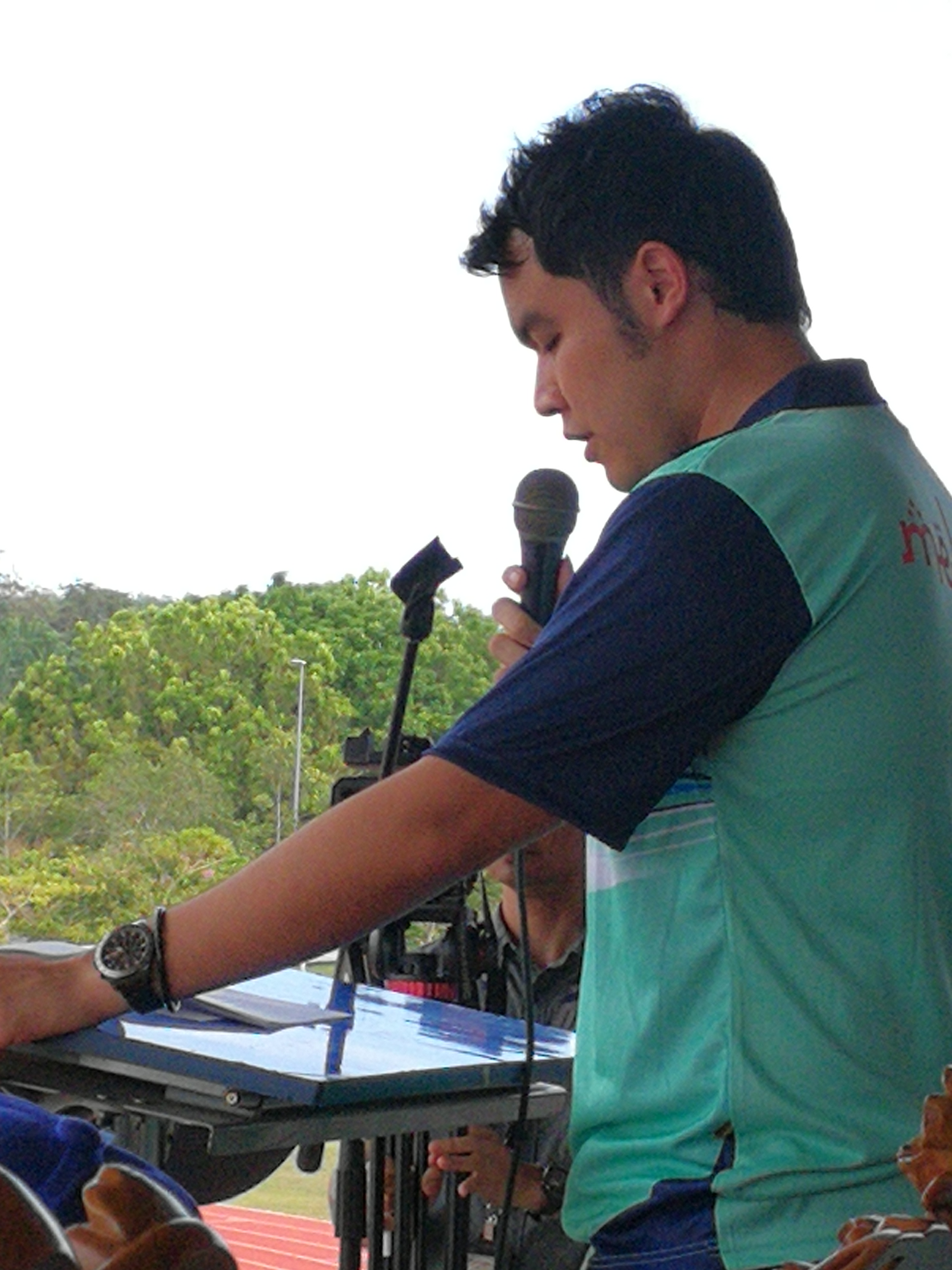 Ucapan Perasmian YB Kerk Chee Yee